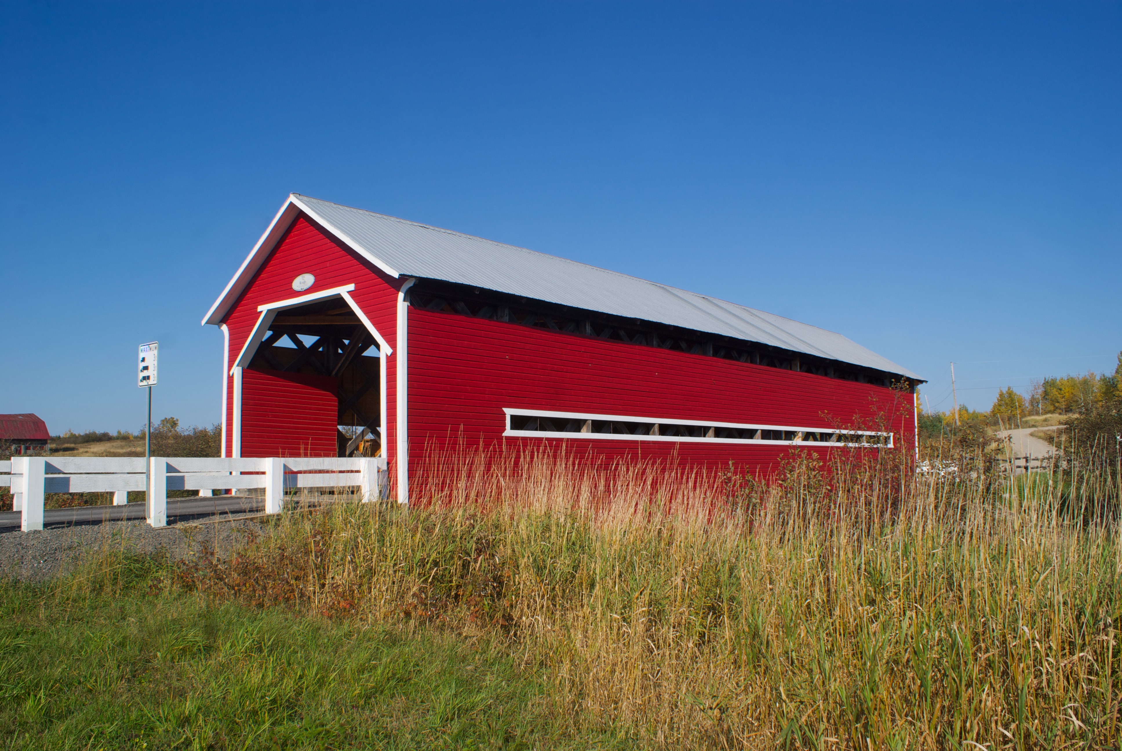 Covered bridge, Ste. Jeanne-d'Arc, Quebec